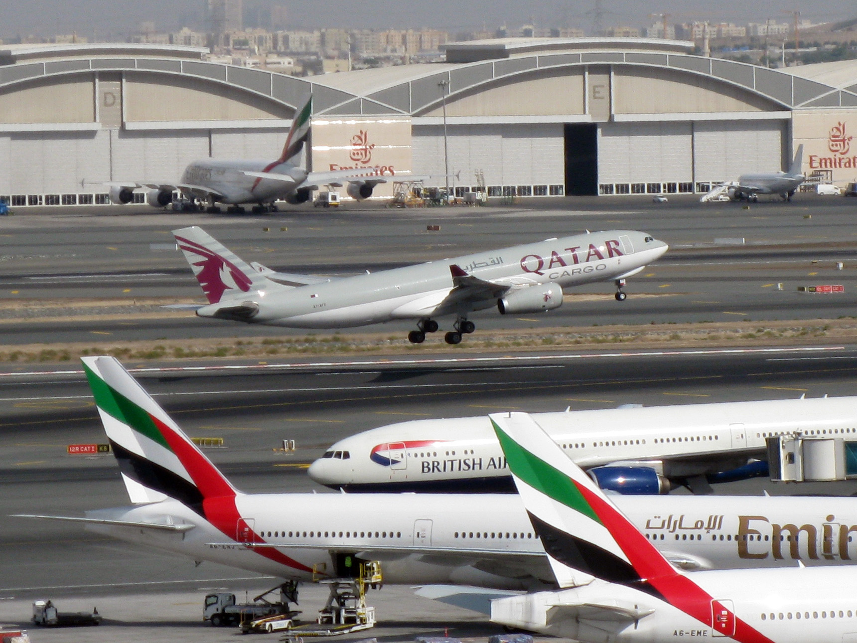 Qatar Airways Airbus A330-200F Climbing out as a British Airways Boeing 777-200/ER searches for a parking spot. Dubai - International (DXB / OMDB)